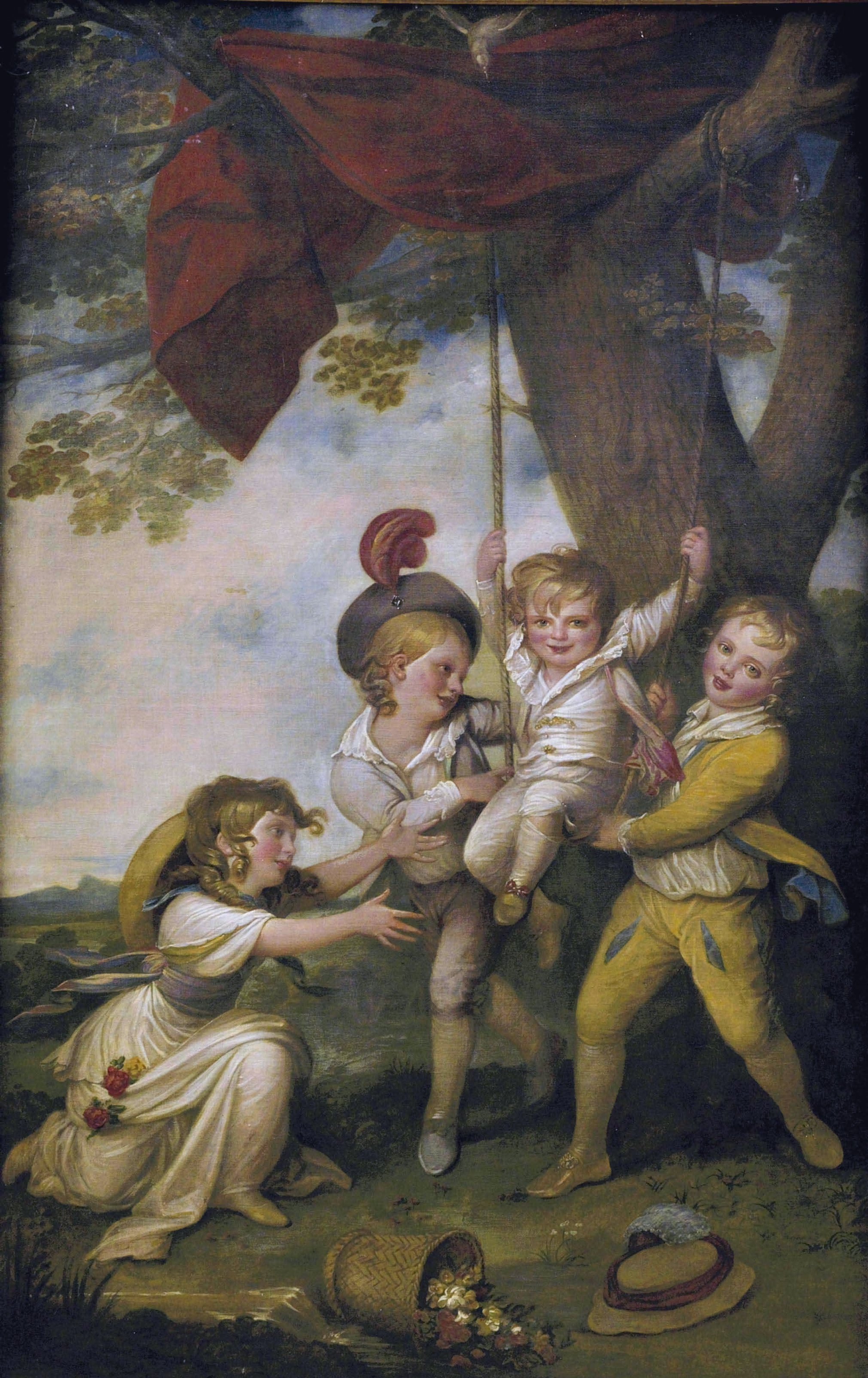 The children of Edmund Boyle, 7th Earl of Cork: Edmund Boyle (1764-1856) later 8th Earl of Cork, Richard Boyle, Courtenay Boyle (1770-1844) later Vice-Admiral and Lucy Isabella Boyle (d.1801) oil on canvas 237 x 147,3 cm between 1764 and 1782